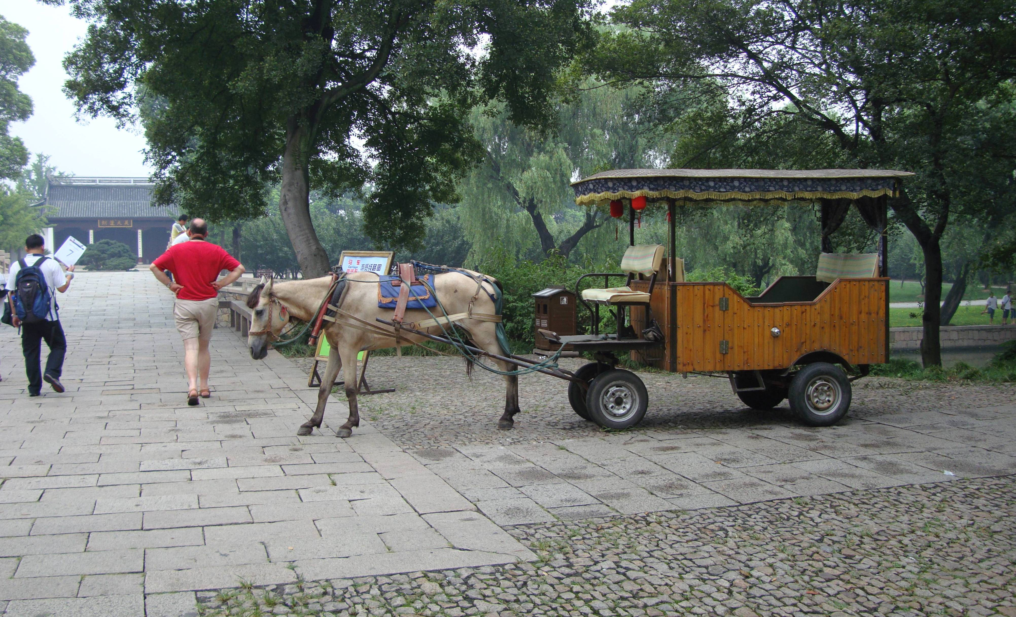 The gardens of Tiger Hill, Suzhou